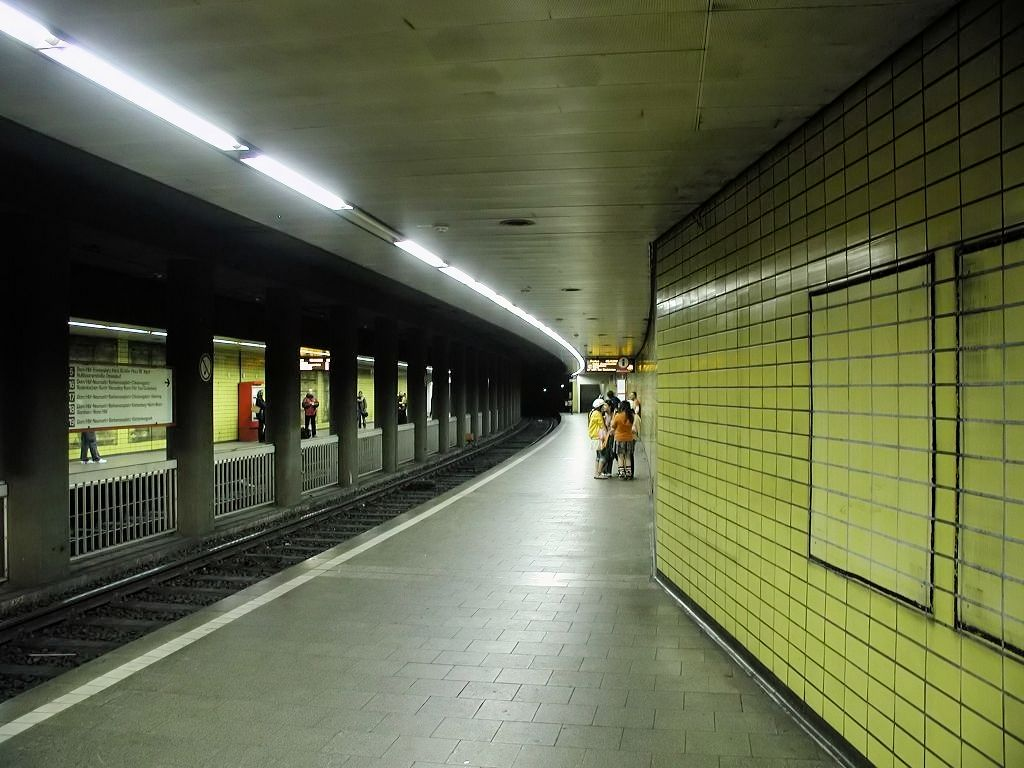 The former "Breslauer Platz" subway station in Cologne